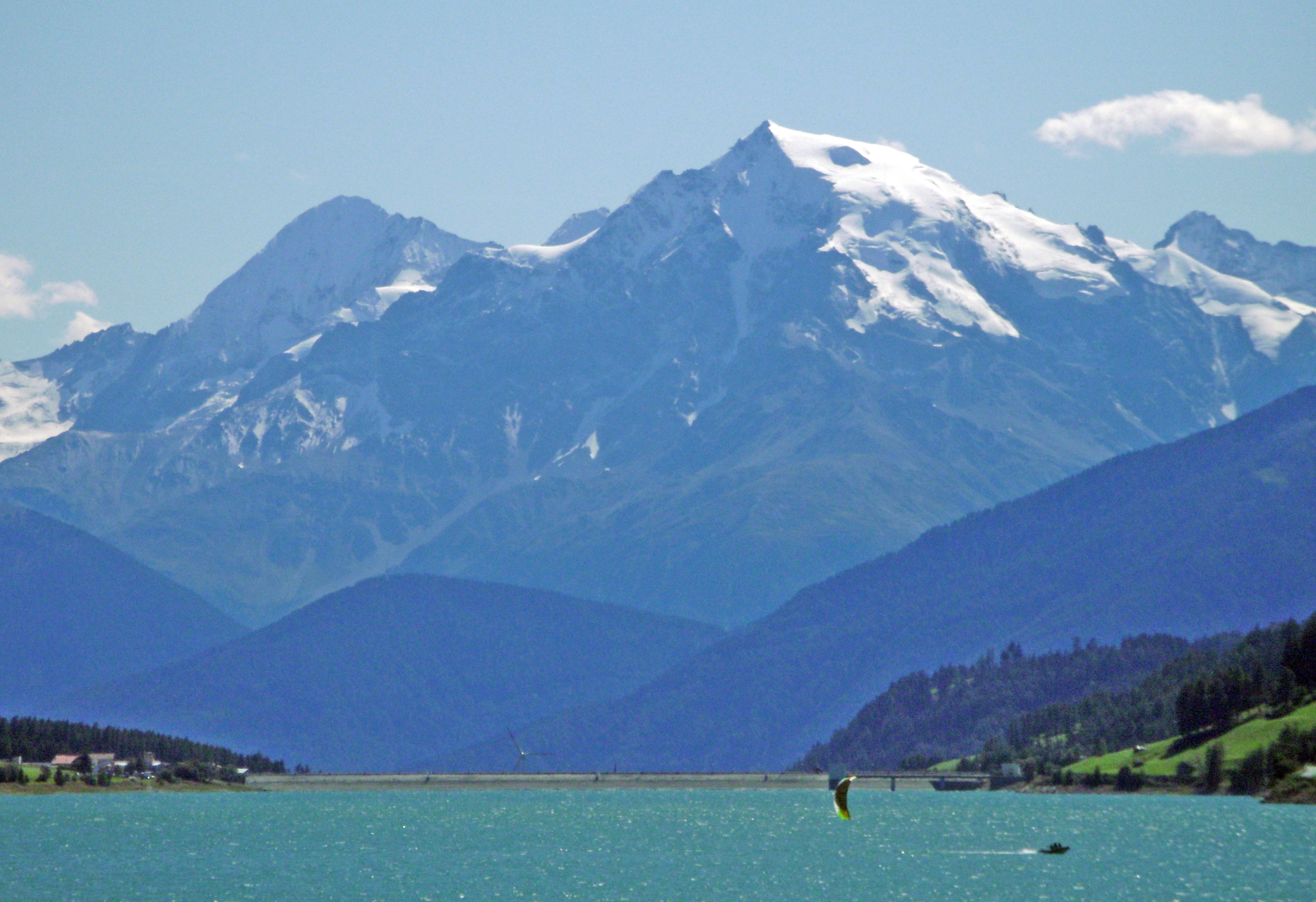 Ortler, Reschensee